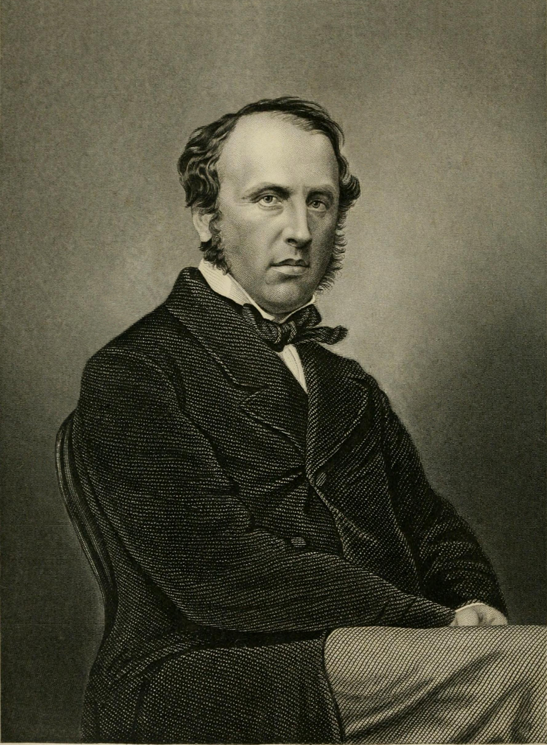 Lord Viscount Canning